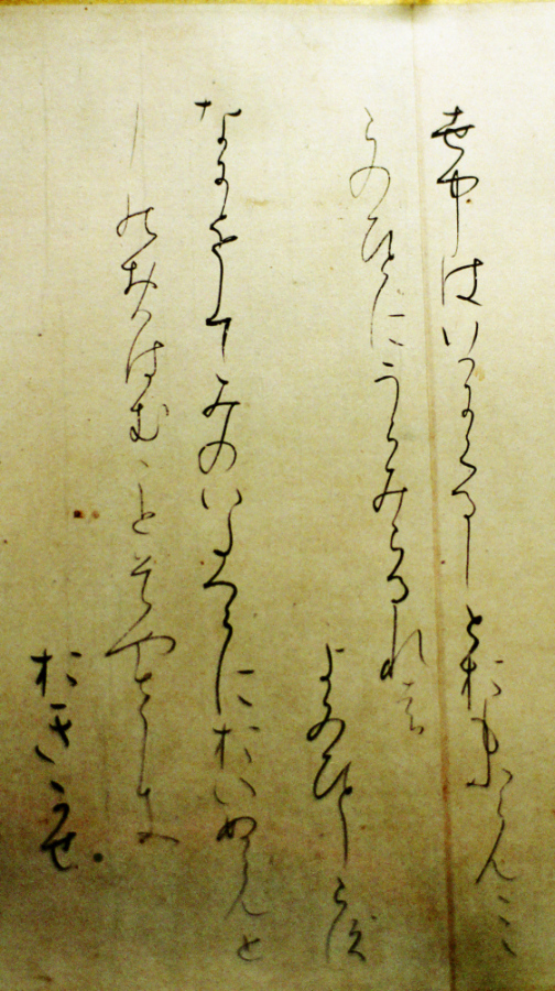 A fragment from Kokin Waka Shu (An Imperial Poetry Anthology) known as "Koyagire", Detail of Frgment from 19th Scroll.Tokyo National Museum, Tokyo, Japan. Tokyo National Museum, Tokyo, Japan.